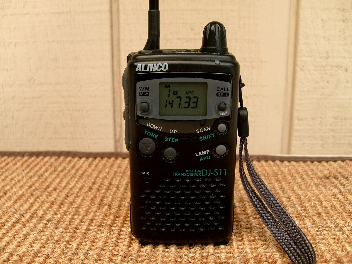 My first ham radio. I did not know enough, at the time, to buy better as this low power radio is pretty limited. I still like it though.